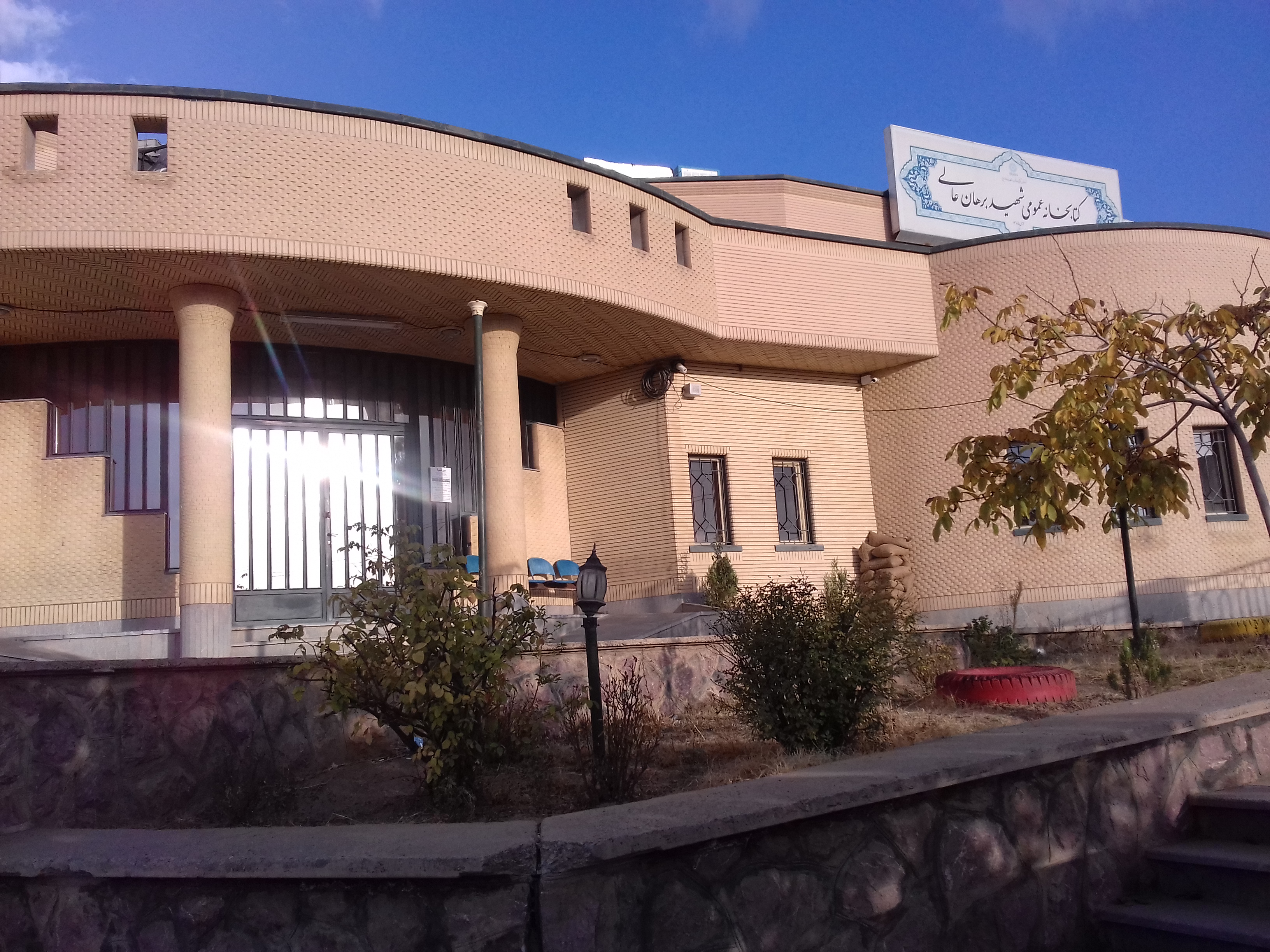 Borhan Alii